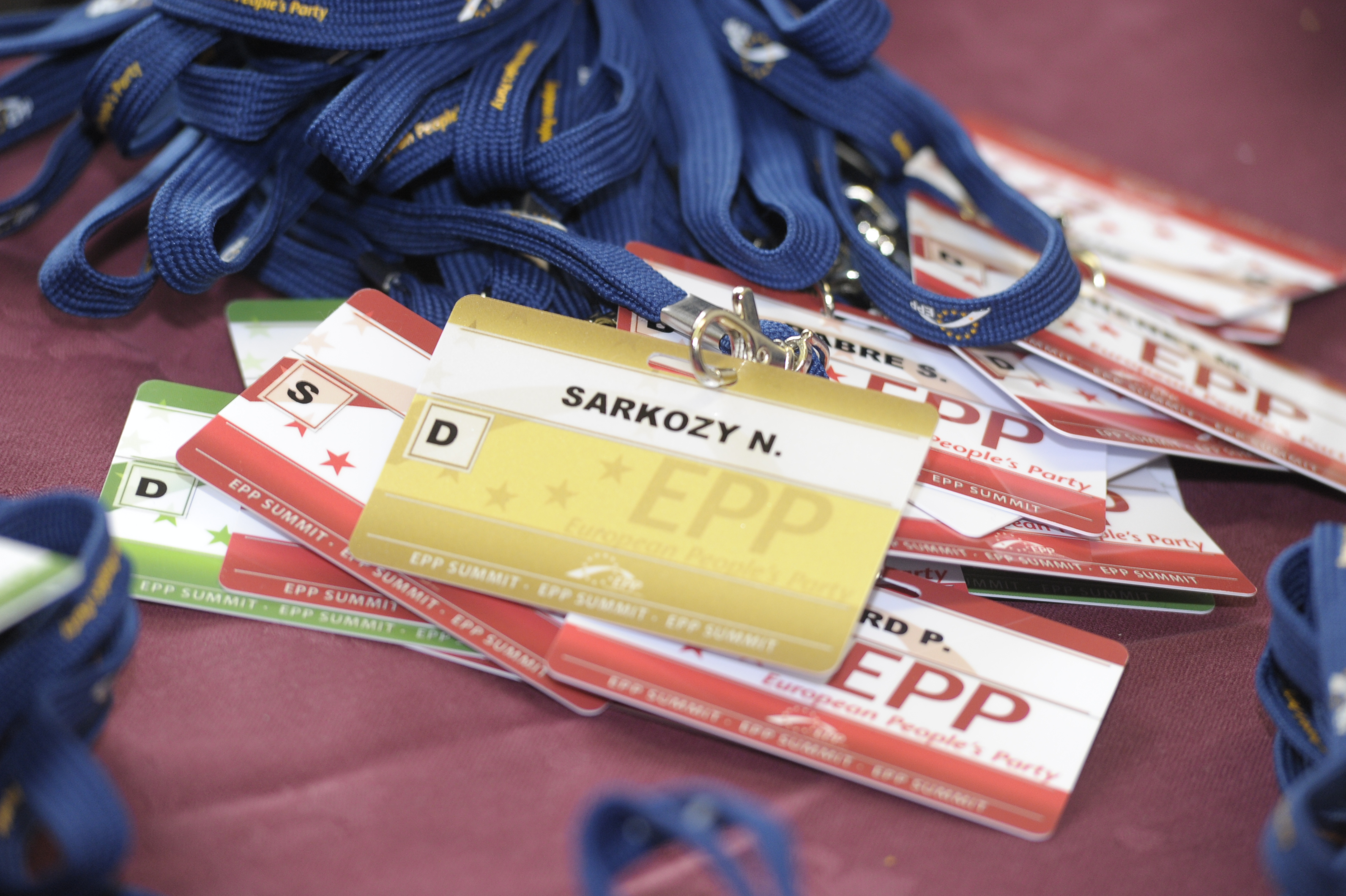 EPP Summit October 2010